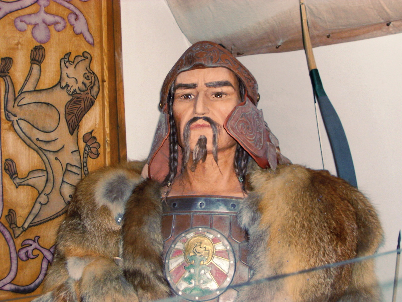 Attila in a museum in Hungary. Photo taken 2005 by me.